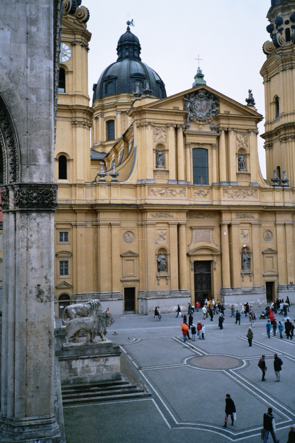 View on Odeonsplatz from the Residenz, Munich, Bavaria.